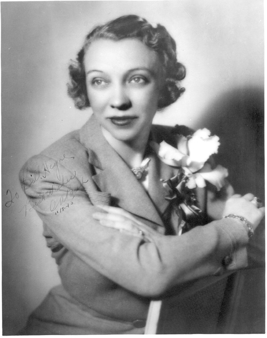 Catalog #: BIOB00140 Last Name: Beech First Name: Olive Ann Notes: Repository: San Diego Air and Space Museum Archive